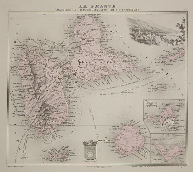 Hand-coloured map of Guadeloupe (centre), Saint Martin (centre right) and Saint Barthélemy (bottom right). An illustration of Basse-Terre is shown in the top right corner of the map.